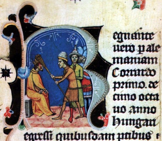 Miniature of the story of Lehel's Horn